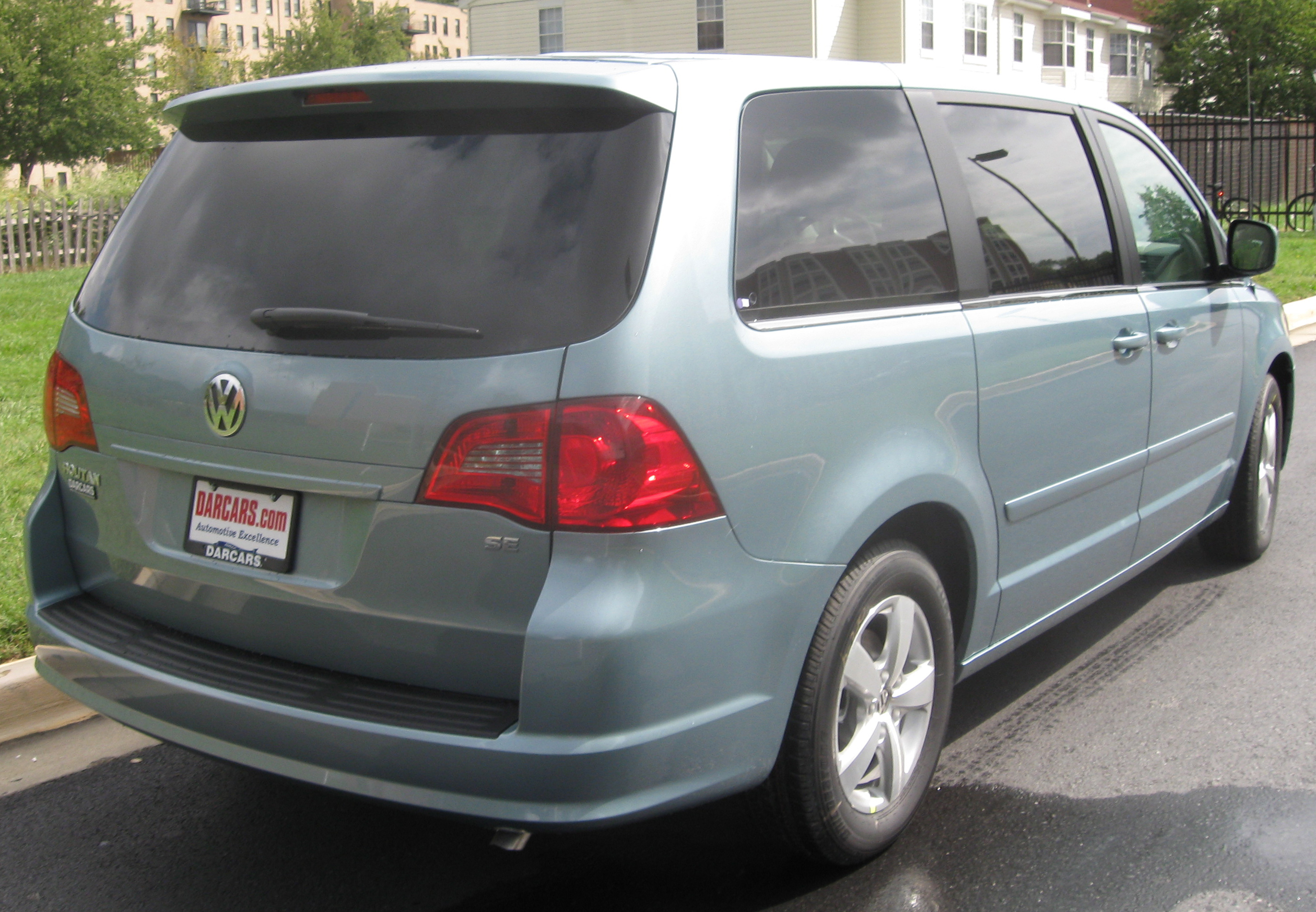 2009 Volkswagen Routan photographed in College Park, Maryland, USA.